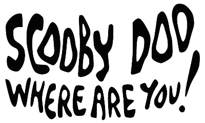 Logo of Scooby-Doo, Where Are You!